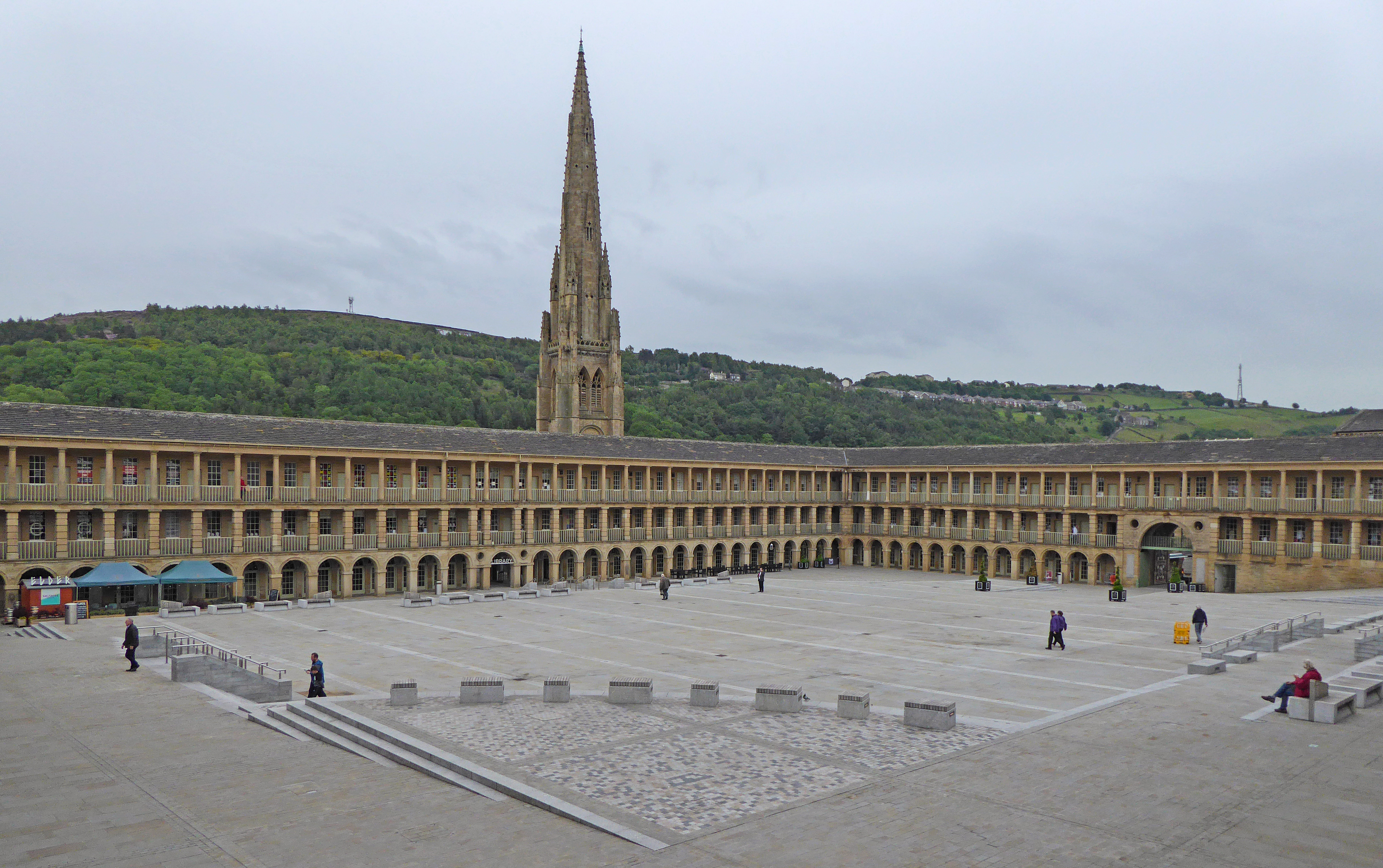 Halifax